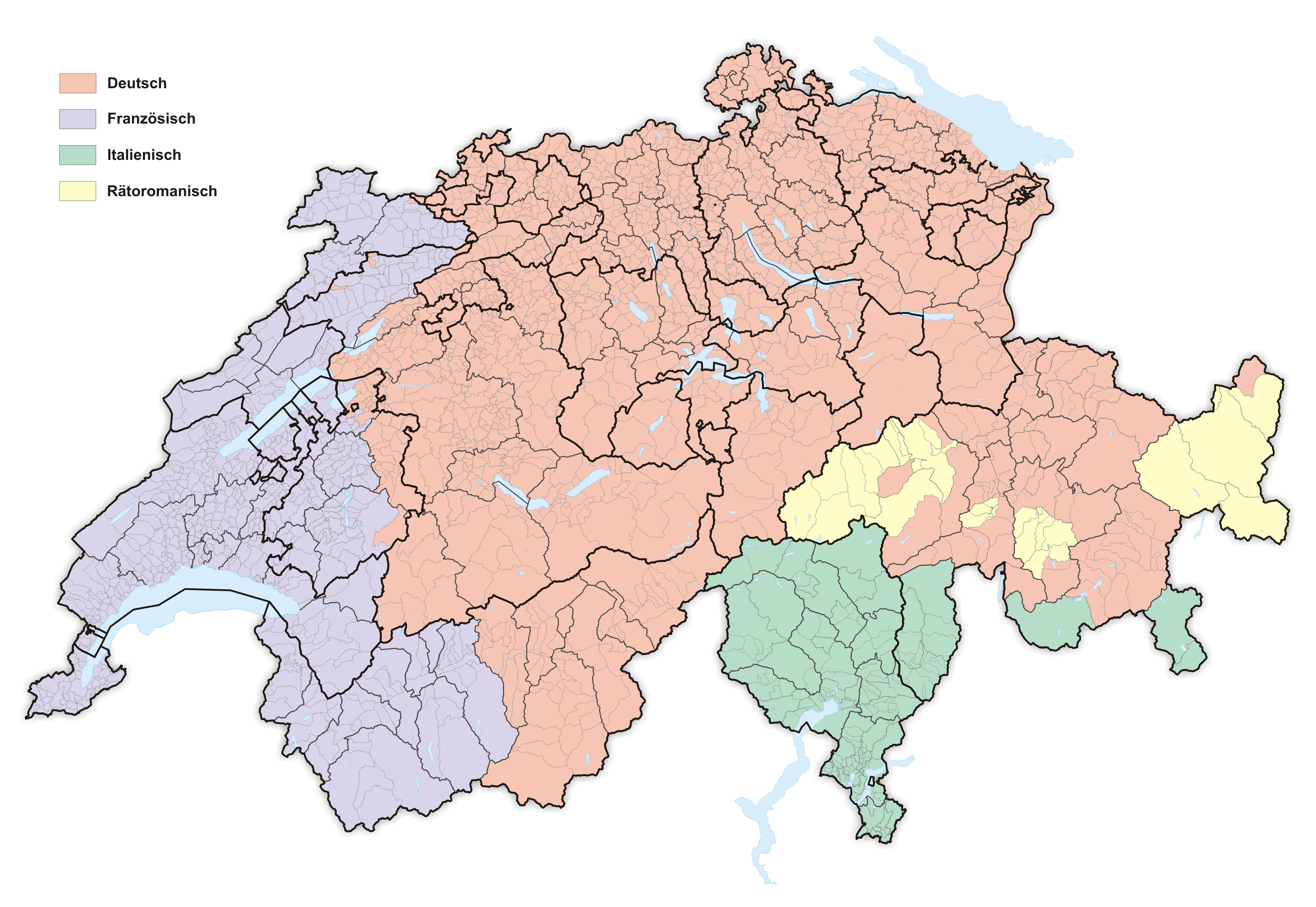 Languages in Switzerland